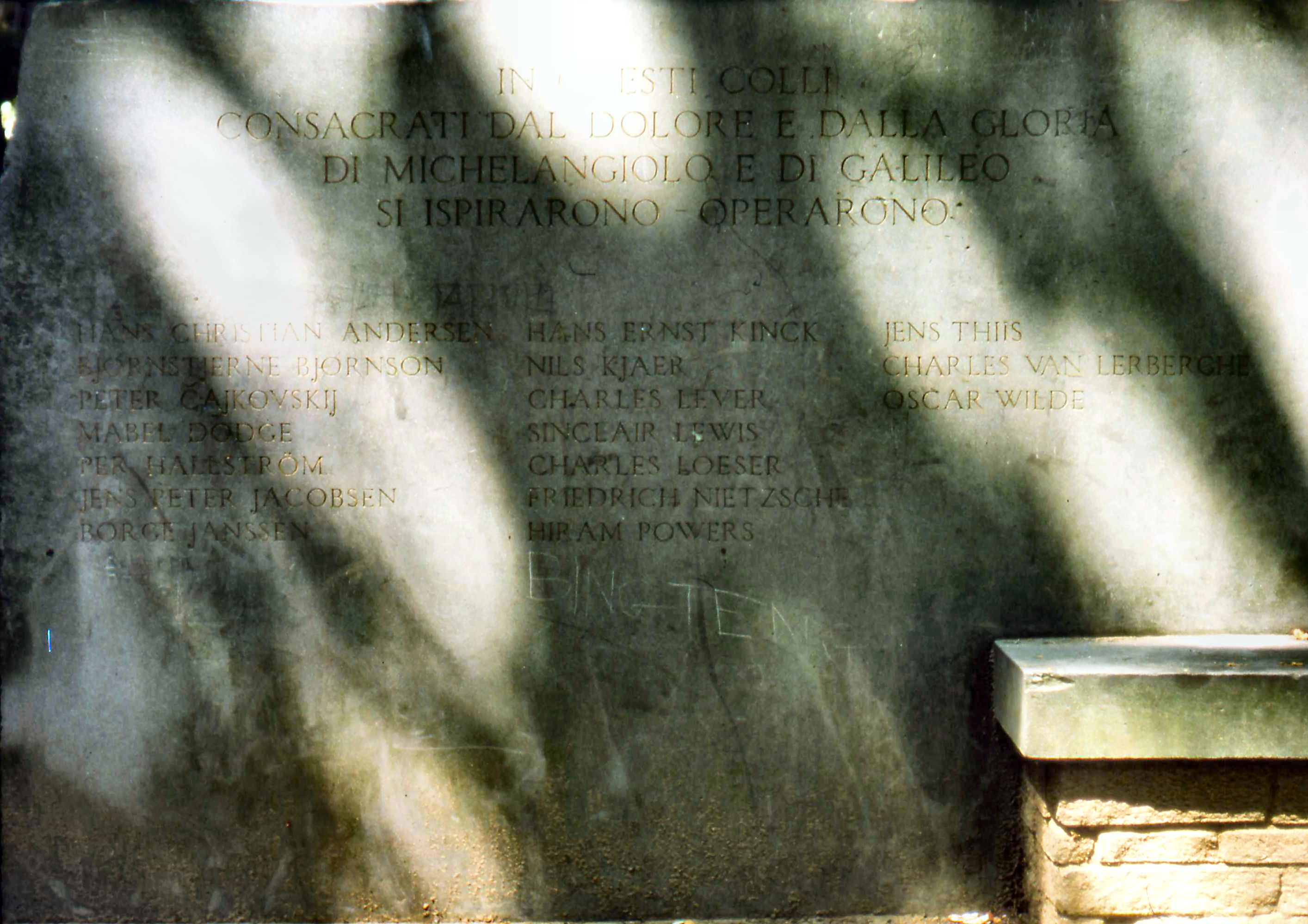 Monument over hounourable citizens of Firenze Foto: Frode Inge Helland 1975